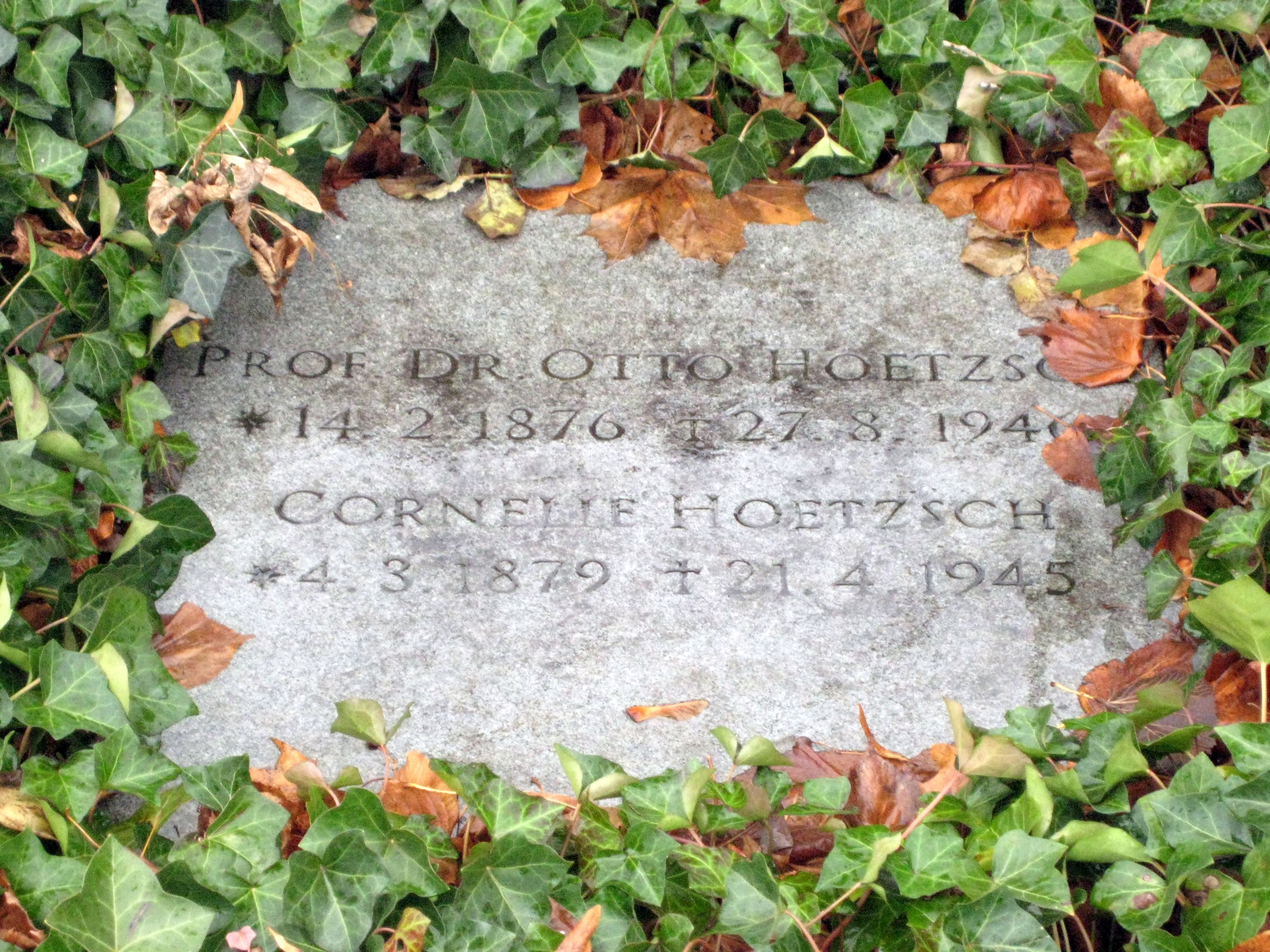 grave of Otto Hoetzsch (1876-1946) and Cornelie Hoetzsch (1879-1945) on Invalidenfriedhof cemetery in Berlin, replacement stone